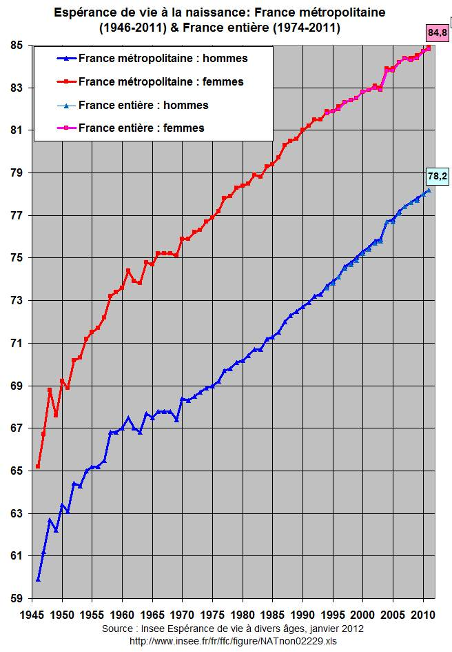 Life expectancy at birth : Metropolitan France (1946-2011) and France including DOMs (1974_2011)